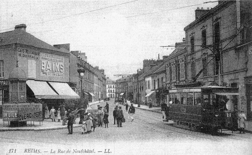 Old tramway of Reims